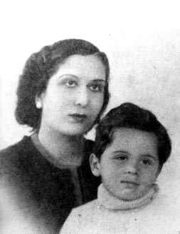 A six-year old Hussein with his mother, Princess (later Queen) Zein al-Sharaf